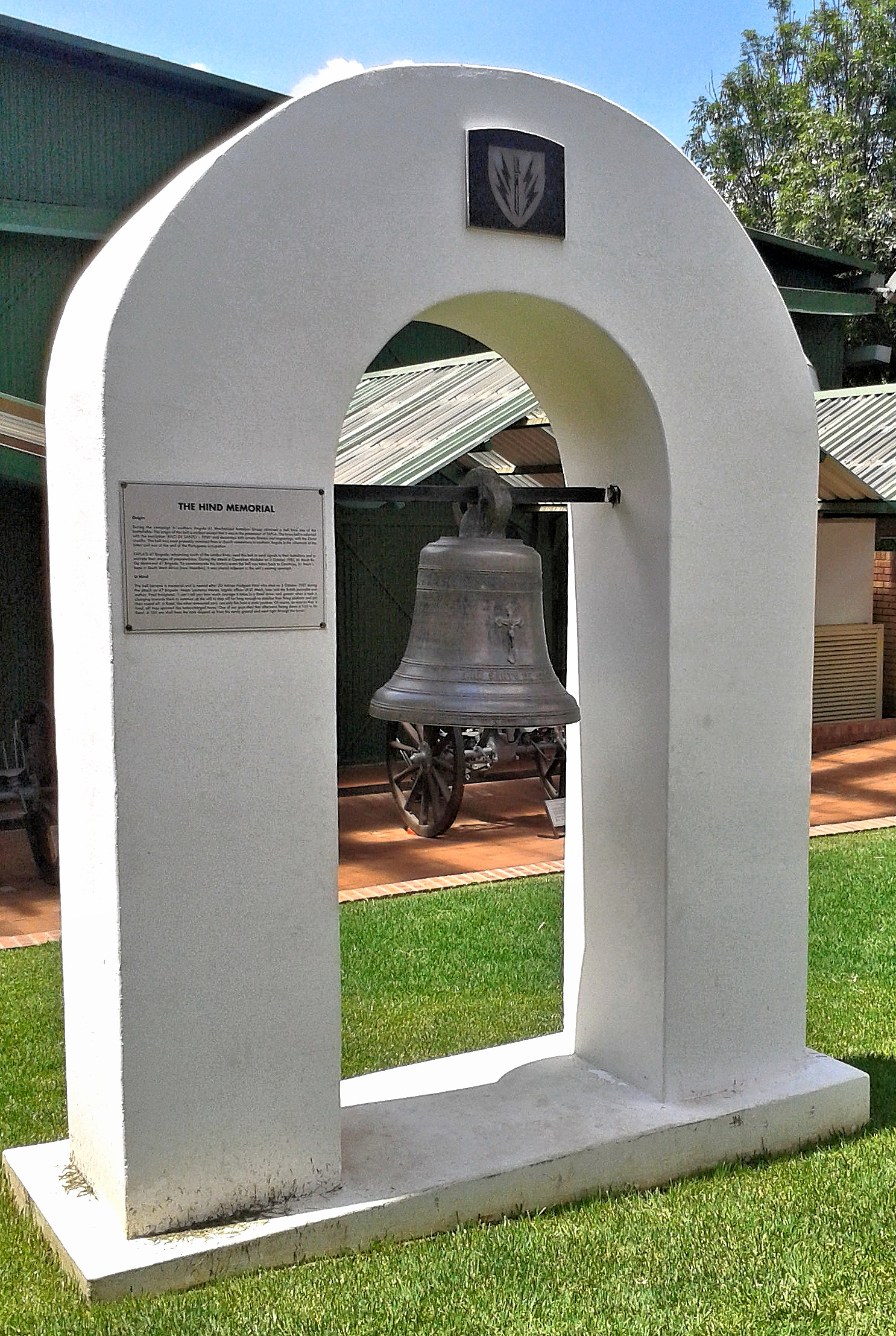 The Hind Memorial, named after 2Lt Adrian Hodgson Hind who died on 3 October 1987 during Operation Moduler, when 61 Mechanised Battalion Group destroyed FAPLA's 47 brigade. The bell was in the possession of FAPLA, and taken to Omuthiya where it was placed adjacent to the 61 Memorial. Re-erected at the South African National Museum of Military History in Saxonwold, Johannesburg in 2010